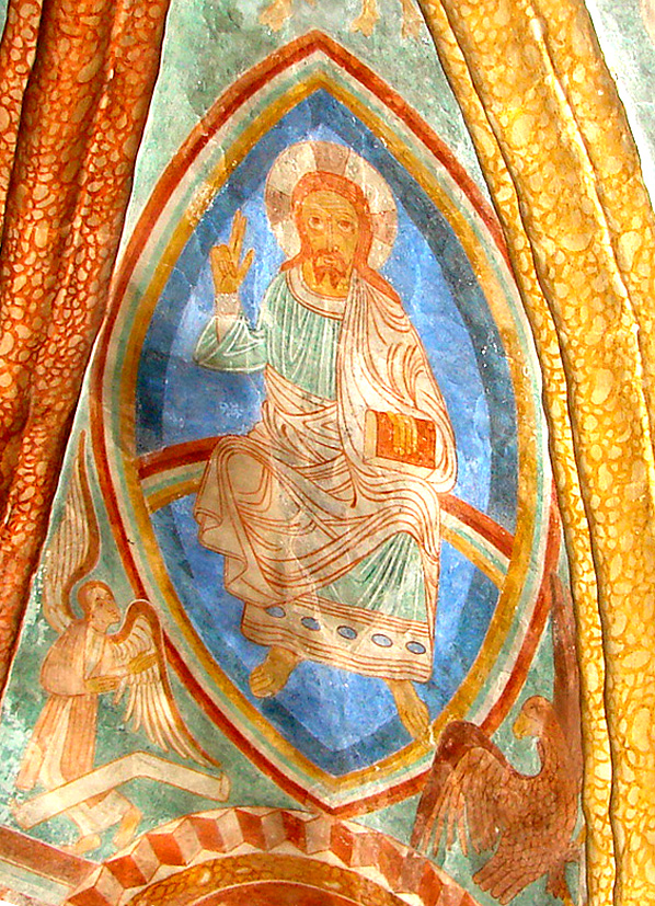 Grønbæk Kirke, depiction of Jesus in pointed oval or "vesica piscis" shape, surrounded by symbols of the four Evangelists.